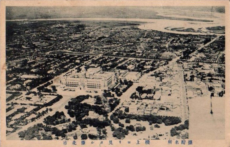 Bird's-eye view of Taihoku(Taipei).